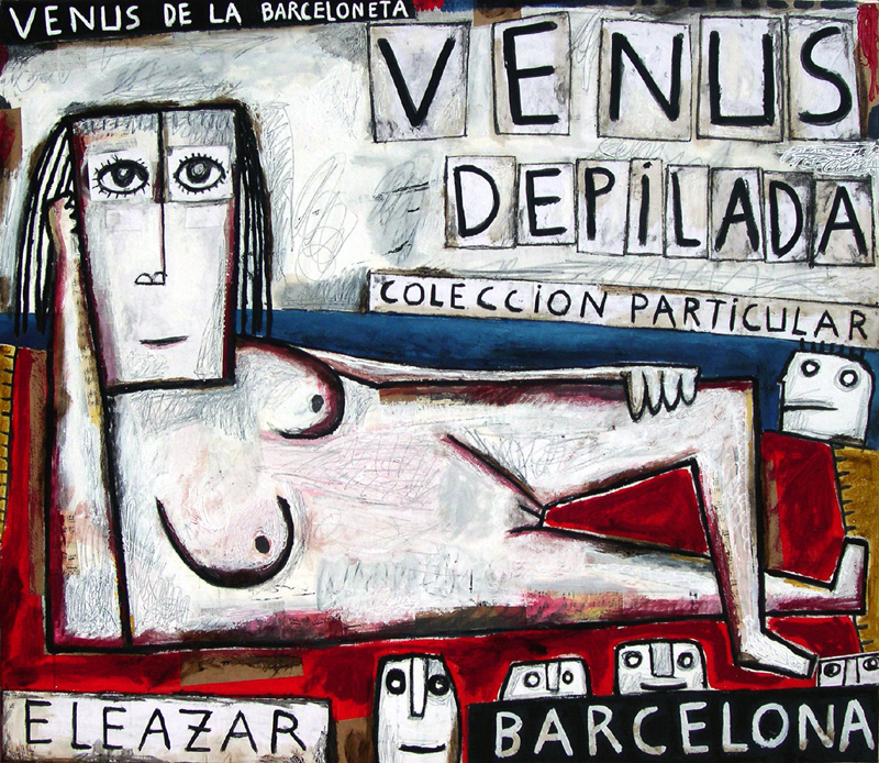 Shaved Venus. Venus of the Barceloneta